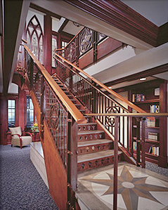 Pitt Honors College in the Cathedral of Learning at the University of Pittsburgh